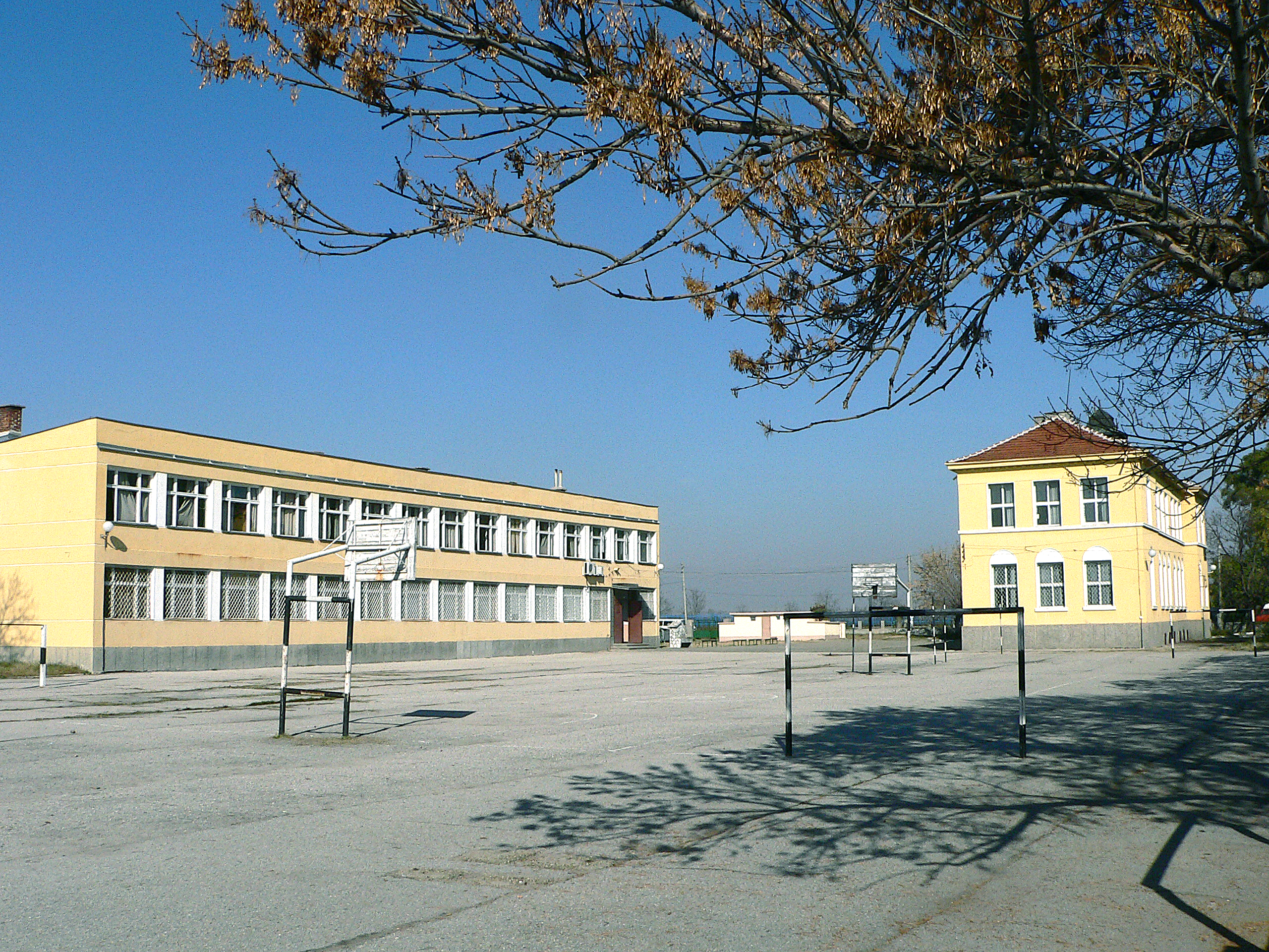 Elementary school "Saint Cyril and Methodius", village Ivaylo, Bulgaria